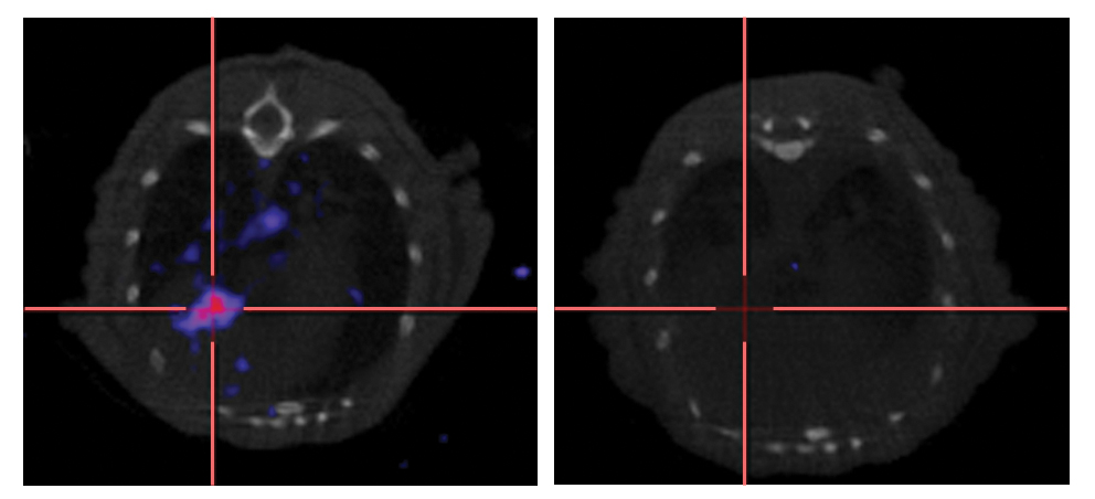 SPECT/CT images of a cross-section of the lungs showing radioiodide accumulation into tumor (located by the crosshairs) in the lungs of a mouse treated intravenously with Ad5/3-hTERT-hNIS and intraperitoneally with radioiodide (left), and a control mouse treated only intraperitoneally with radioiodide (Right).